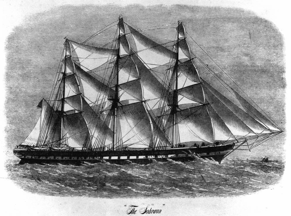 The clipper Sobraon, photograph of a painting.